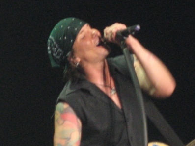 (A poorly taken picture of) John Rzeznik performing at a Dallas, Texas concert on August 31, 2007.